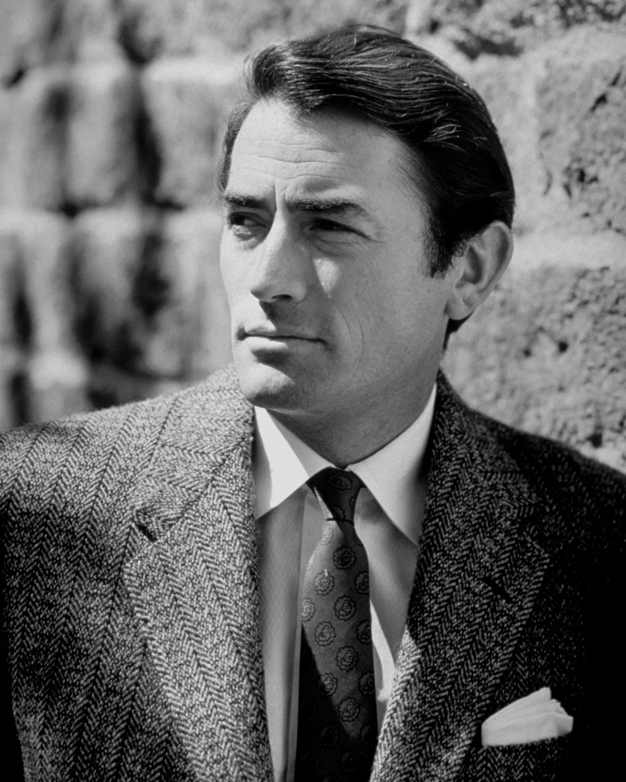 Publicity Photo of American film actor Gregory Peck.